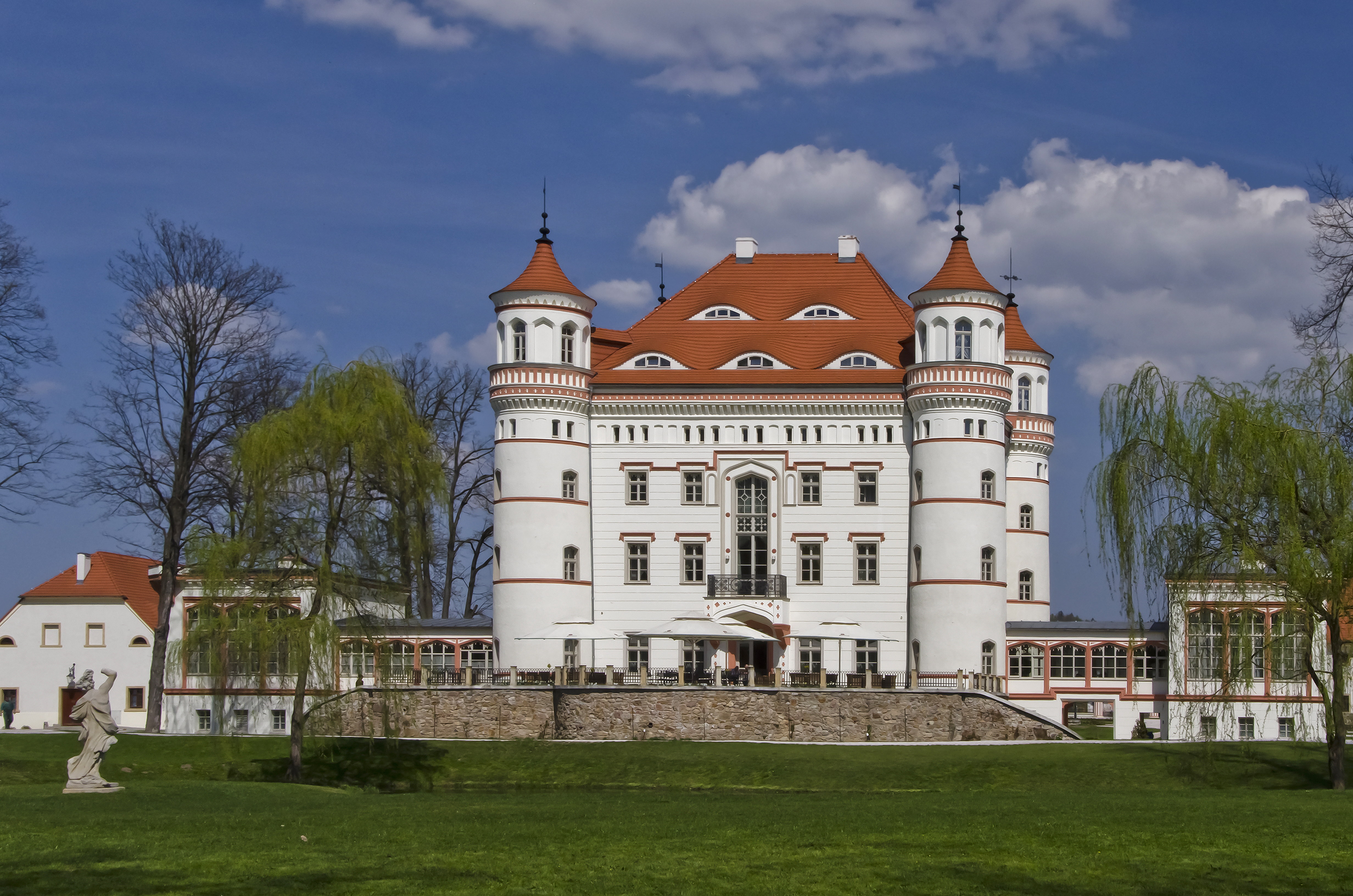 Palace in Wojanów. Poland.